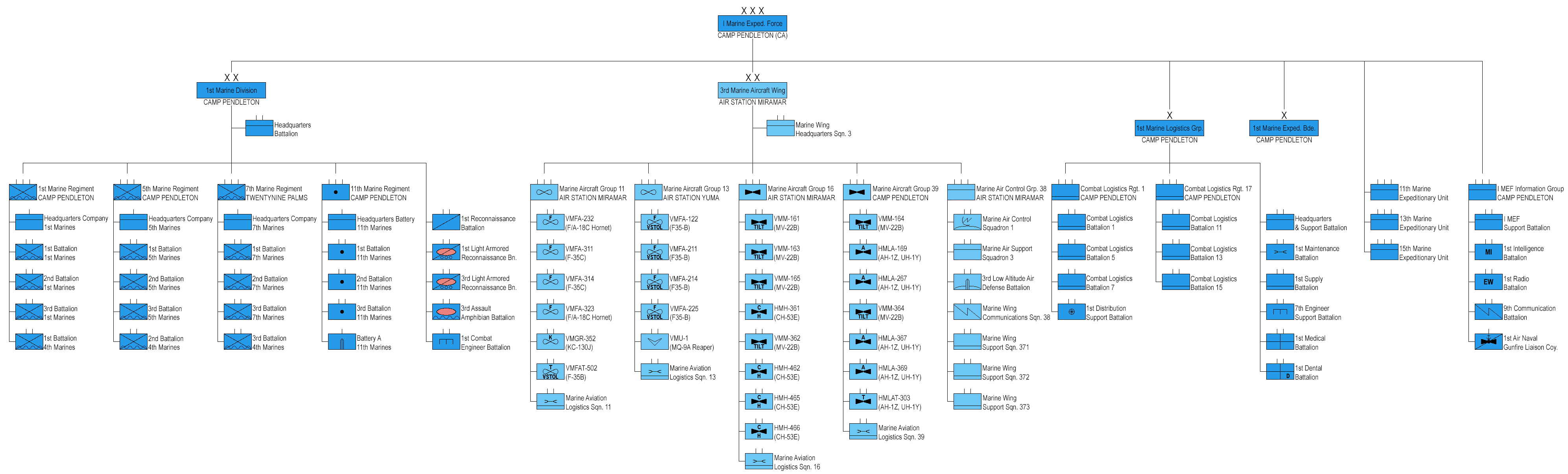 Structure of the 1st Marine Expeditionary Force